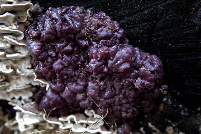 Ascocoryne from Commanster, Belgium. If you think this is a different taxon, please contact James Lindsey.